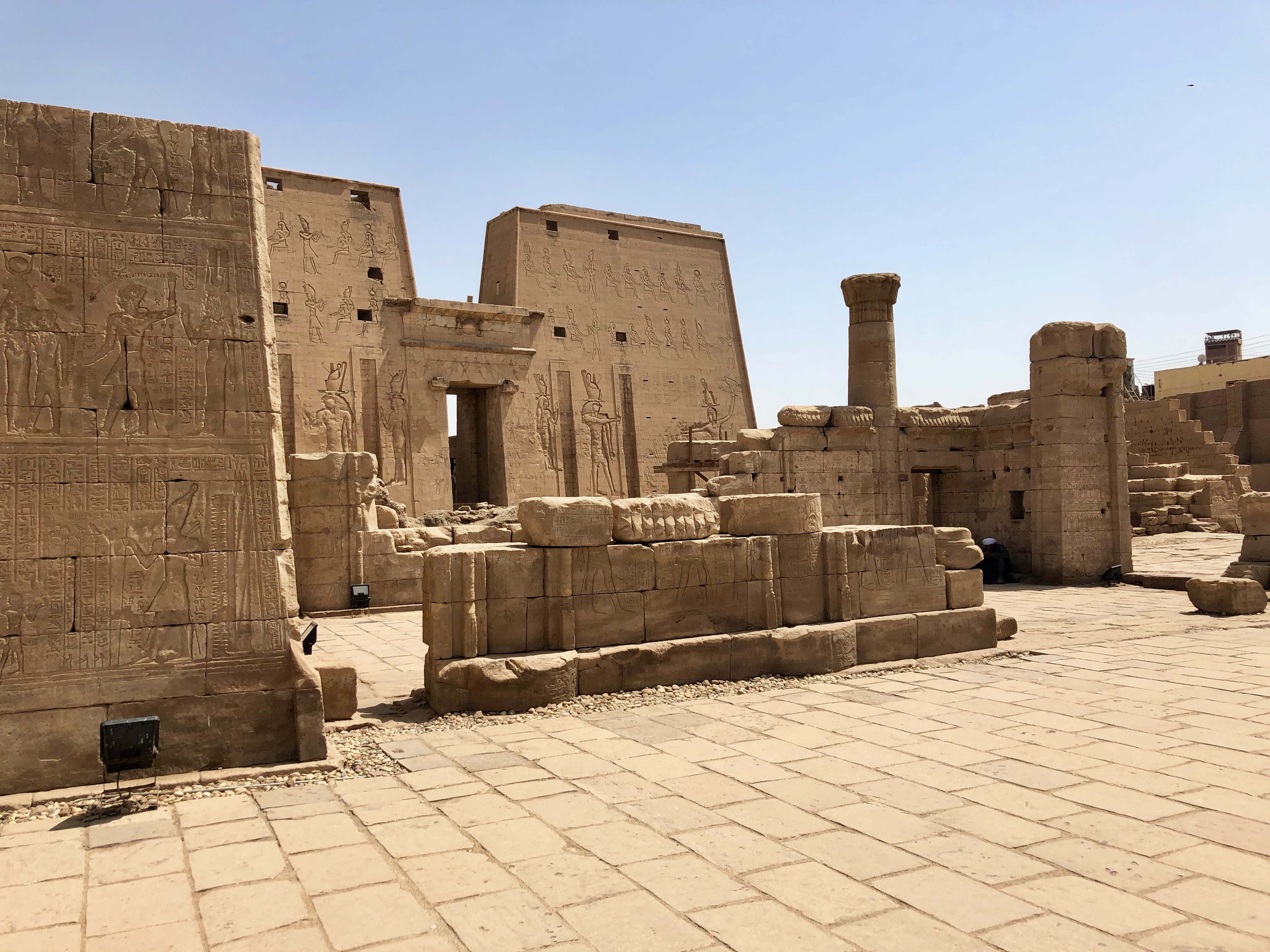 Temple of Horus at Edfu, Edfu, AG, EGY